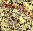 Lake Gokcha (renamed into Sevan)